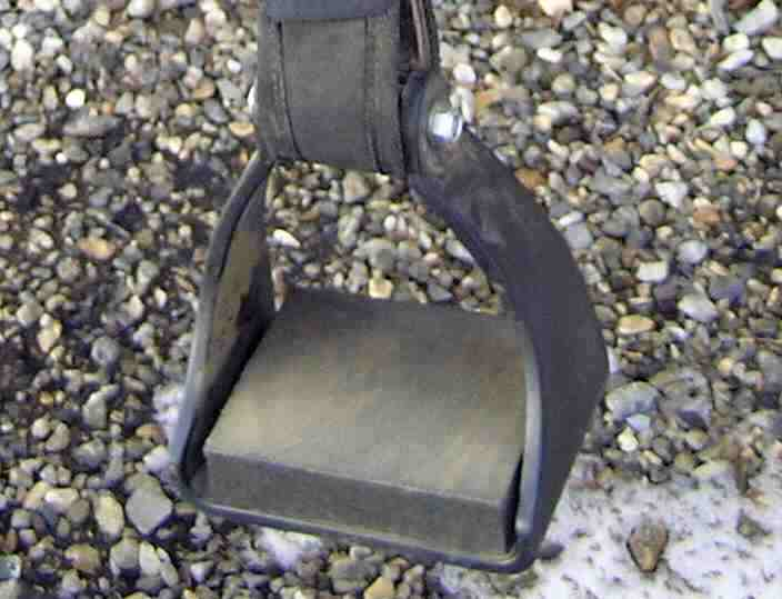 Stirrup on an (admittedly dirty) endurance saddle